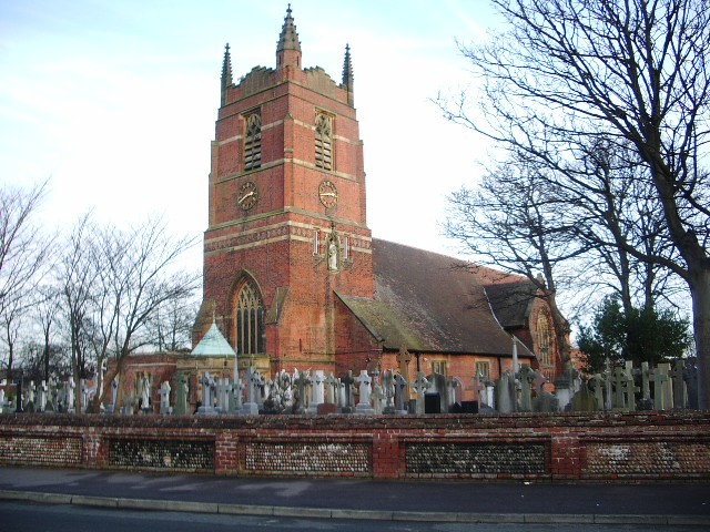 Photograph